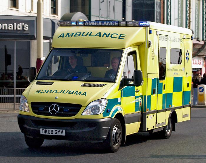 North West Ambulance Service, a Mercedes-Benz ambulance on the Promenade, Blackpool at the junction with Chapel Street. Camera: Olympus E-500 License on Flickr (2011-02-09): CC-BY-SA-2.0 Flickr tags: North West Ambulance Service, Mercedes-Benz, ambulance, Blackpool Promenade